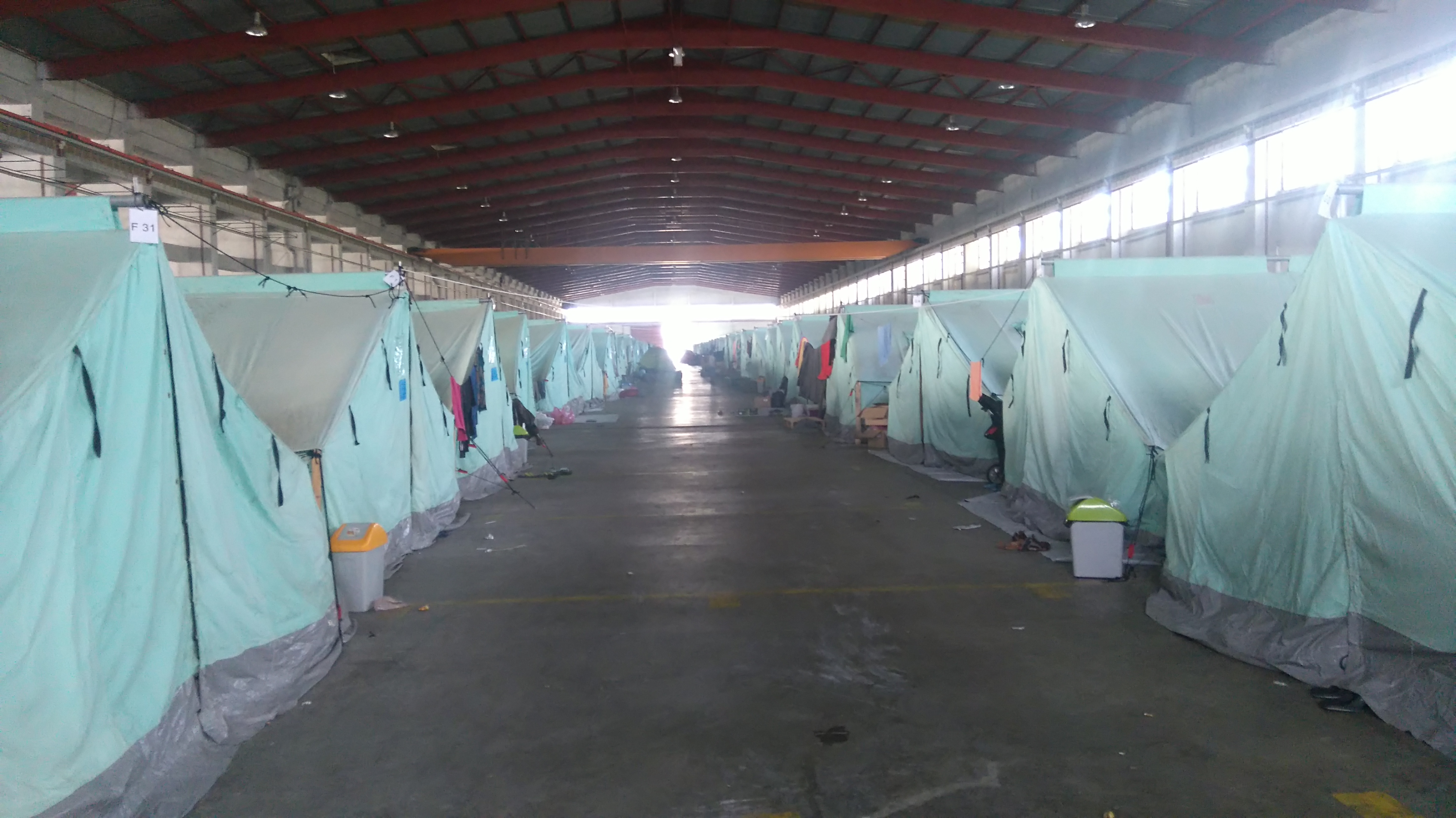 Refugee camp in industrial building ("Fessas") in Oraiokastro Thessaloniki.